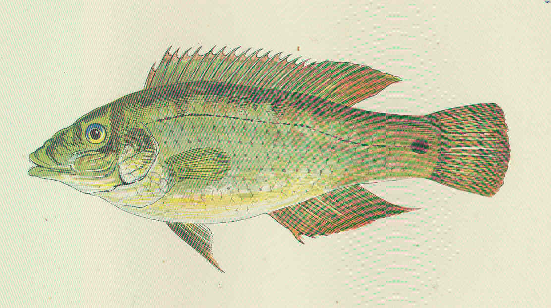 Corkwing Goldfinny Labrus cornubieasis Crenilabrus cornubicus Crenilabrus melops Subject: Wrasses Tag: Fish